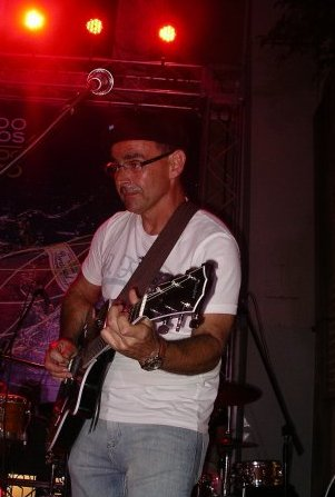 Foto of dominican guitar player Juan Francisco Ordóñez during a live performance in Santo Domingo, September 2009